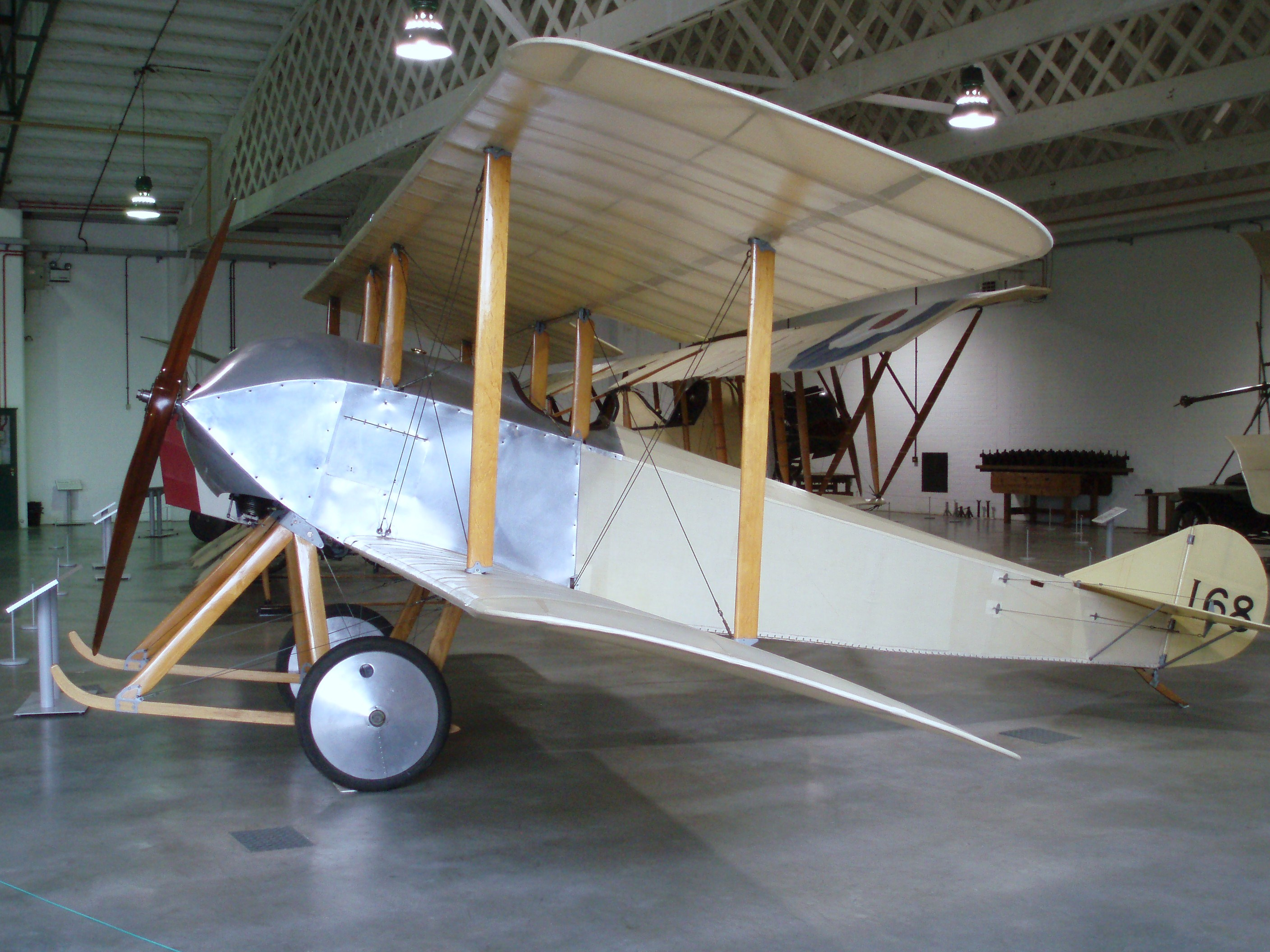 Royal Air Force Museum Hendon London Sopwith Tabloid 020